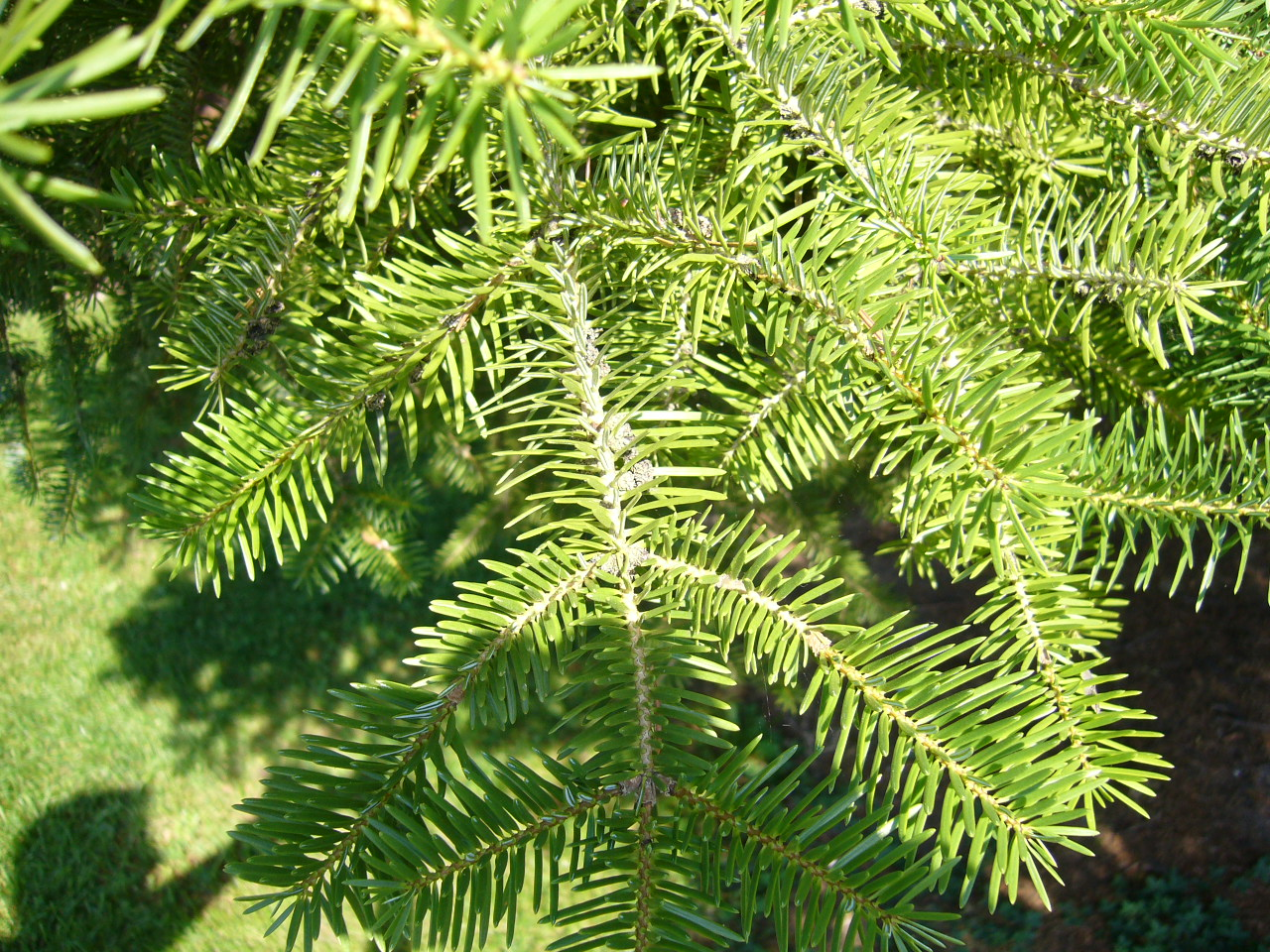 Abies cephalonica : twigs